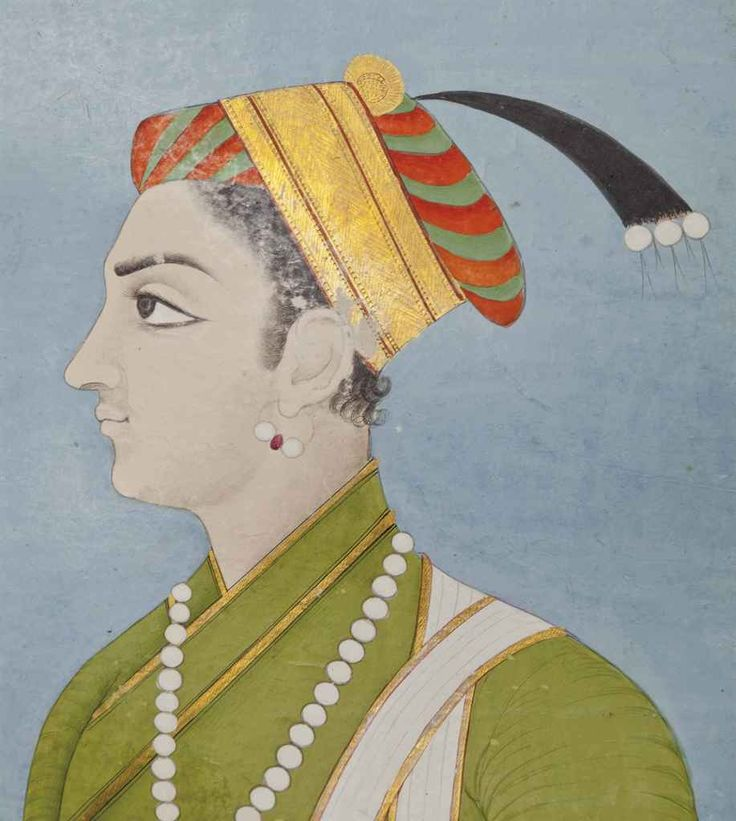 Recently identified portrait of Sulaiman Shikoh